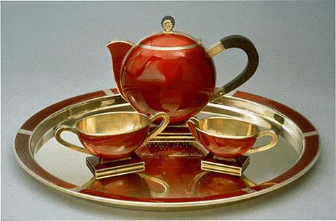 Tea setGift to President Roosevelt from Olav and Märtha, the Crown Prince and Princess of Norway tea pot: 5.3 × 6.7 × 3 ″ (13.6 × 17.1 × 7.6 cm) sugar bowl: 1.8 × 4.8 × 2.2 ″ (47.6 × 122.2 × 57.1 mm) creamer: 1.6 × 3.8 × 1.9 ″ (41.2 × 98.4 × 49.2 mm) tray: 3.7 × 13 ″ (9.5 × 33.1 cm)